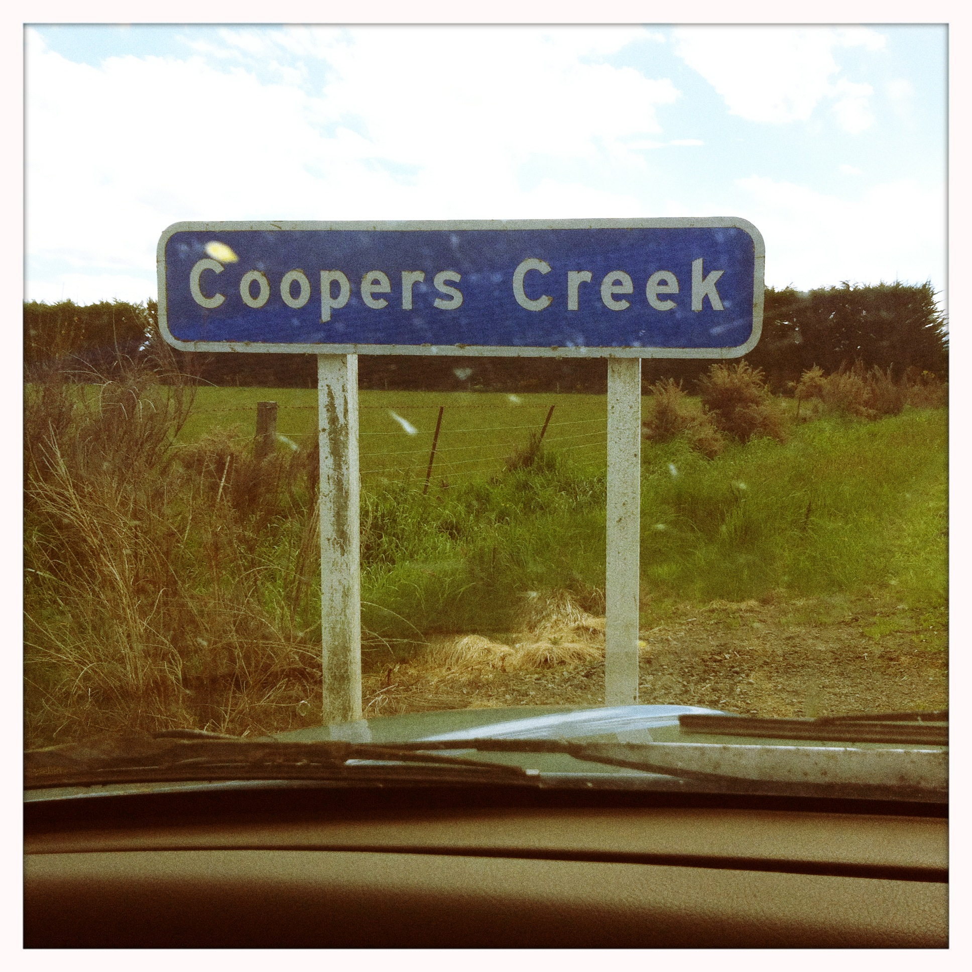 A sign saying 'Coopers Creek', in Canterbury, NZ.